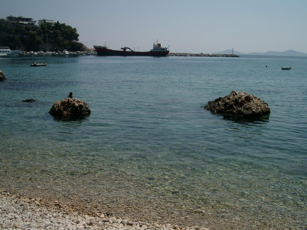 Alonissos - Northern Sporades - Greece